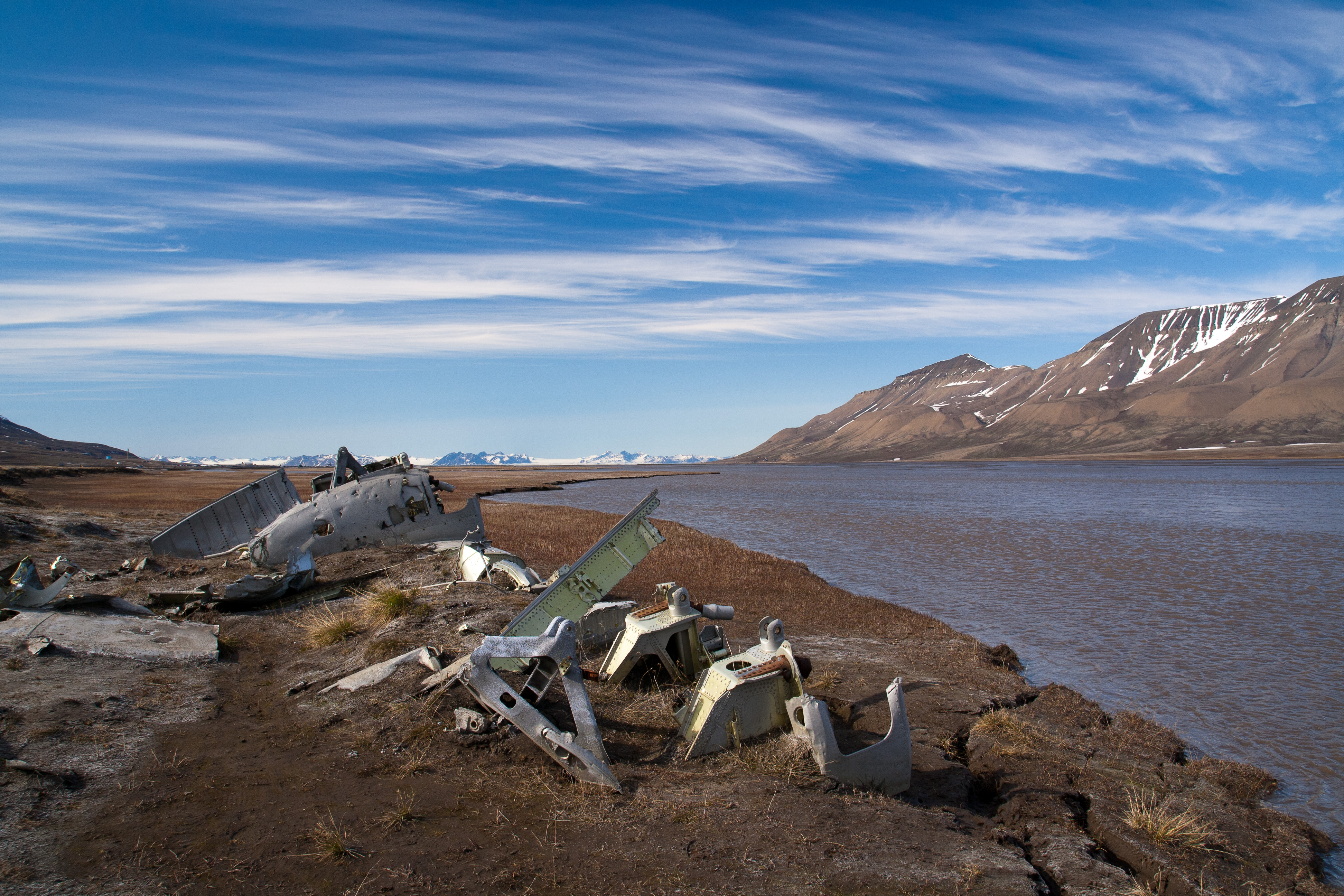 Crashed German Second Worldwar Airplane in Adventdalen/Svalbard